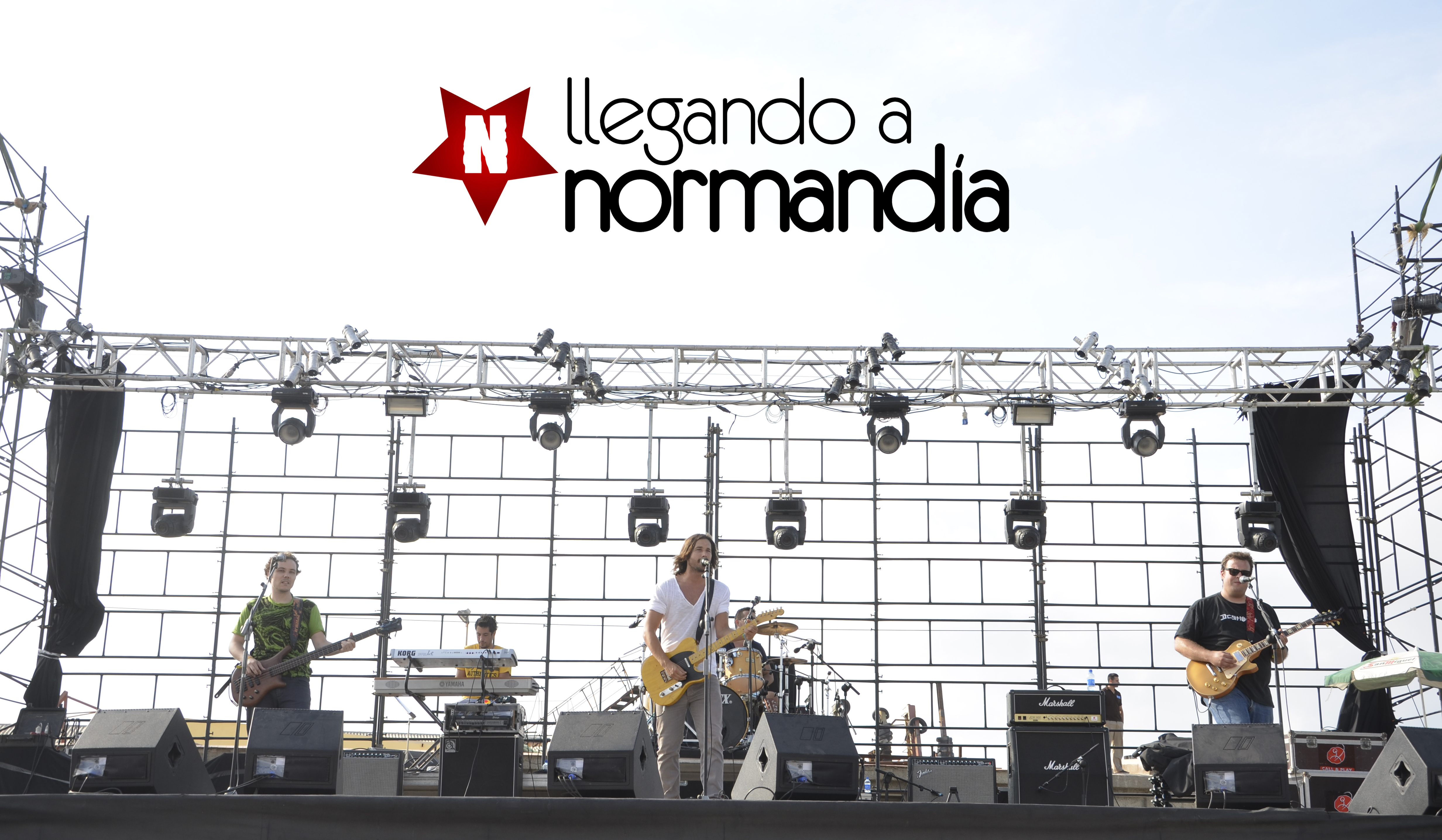 Llegando a Normandía in concert on Arenal Sound Festival 2011